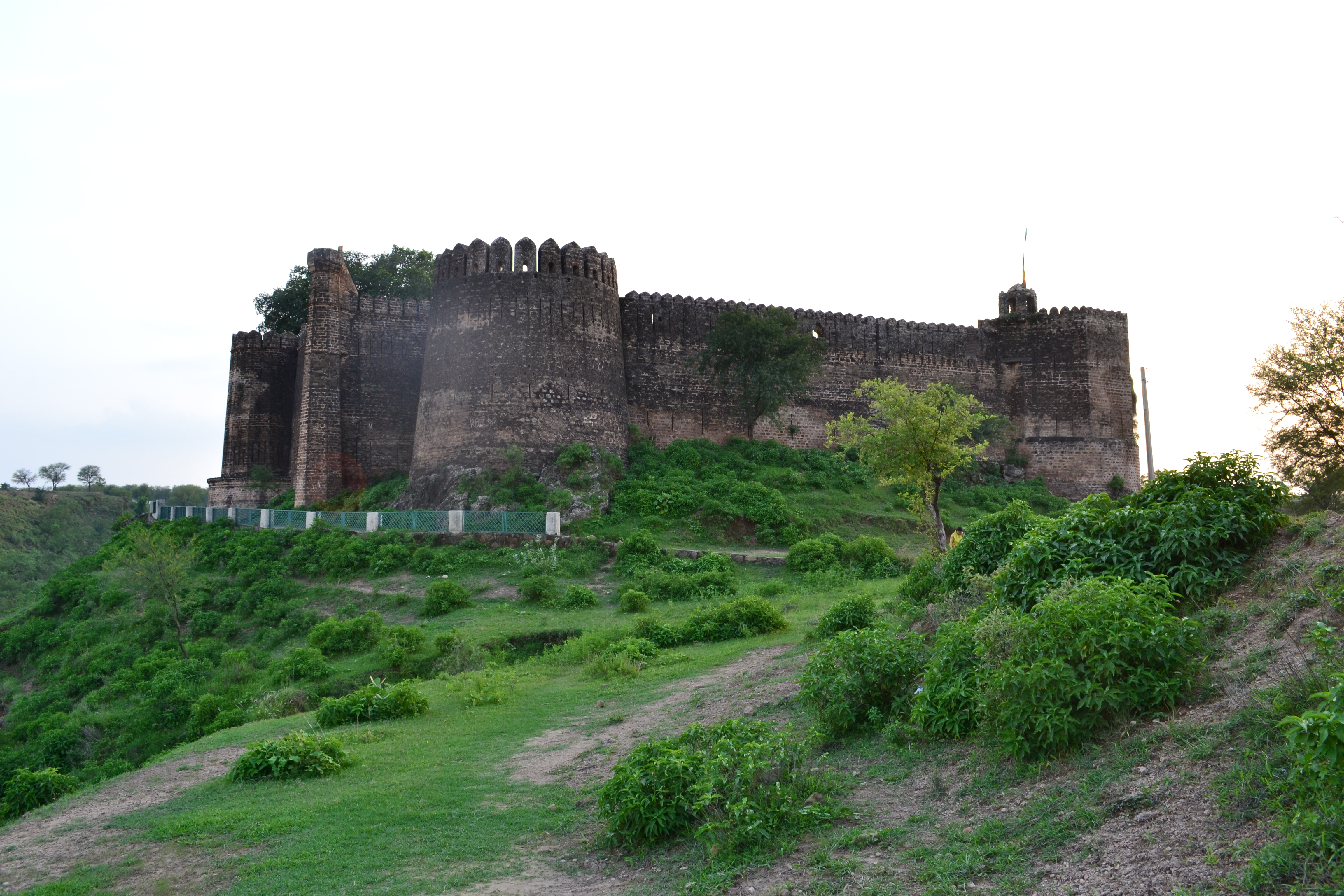 Sangni Fort in Tehsil Gujar Khan, Rawalpindi Paunjab.